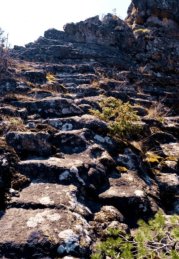 Il kaya VK